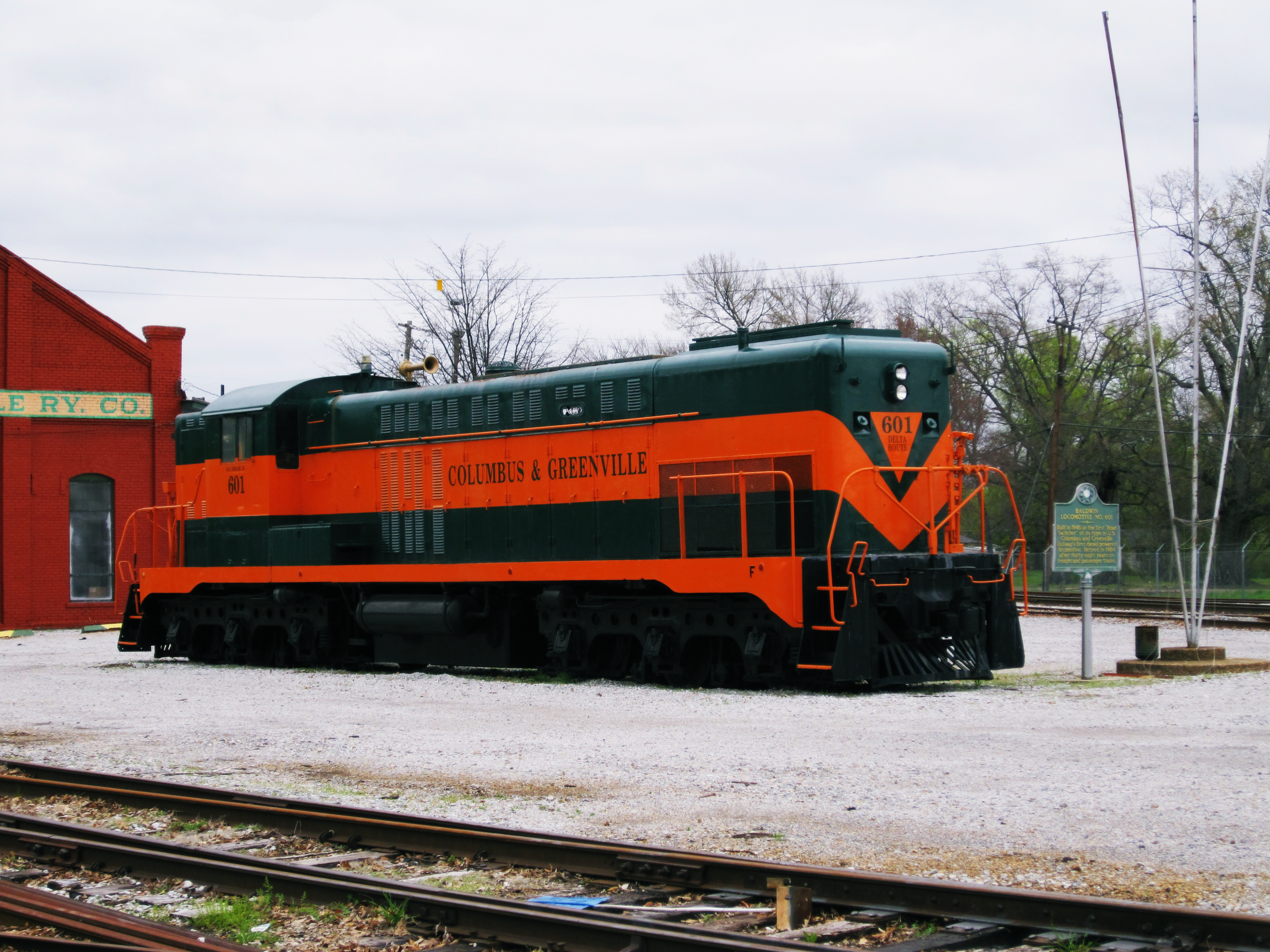 Columbus and Greenville Railroad Roundhouse - Columbus, MS The transition to diesel-electric power begun in 1945 represented the first time the Mississippi shortline was able to buy brand new locomotives. The railroad turned to the Baldwin company in Philadelphia and ordered five 1500 HP road switcher units with six wheels on each truck to help distribute the weight over the pitiful track. This order was Baldwin's first diesel order in the United States. These locomotives served CAGY well for forty years, remaining in service until the 1980s. CAGY 601 and 606 are the only two survivors. 606 is on display at the Illinois State Railroad Museum in Union, IL and 601 is shown here on permanent display in Columbus, MS.